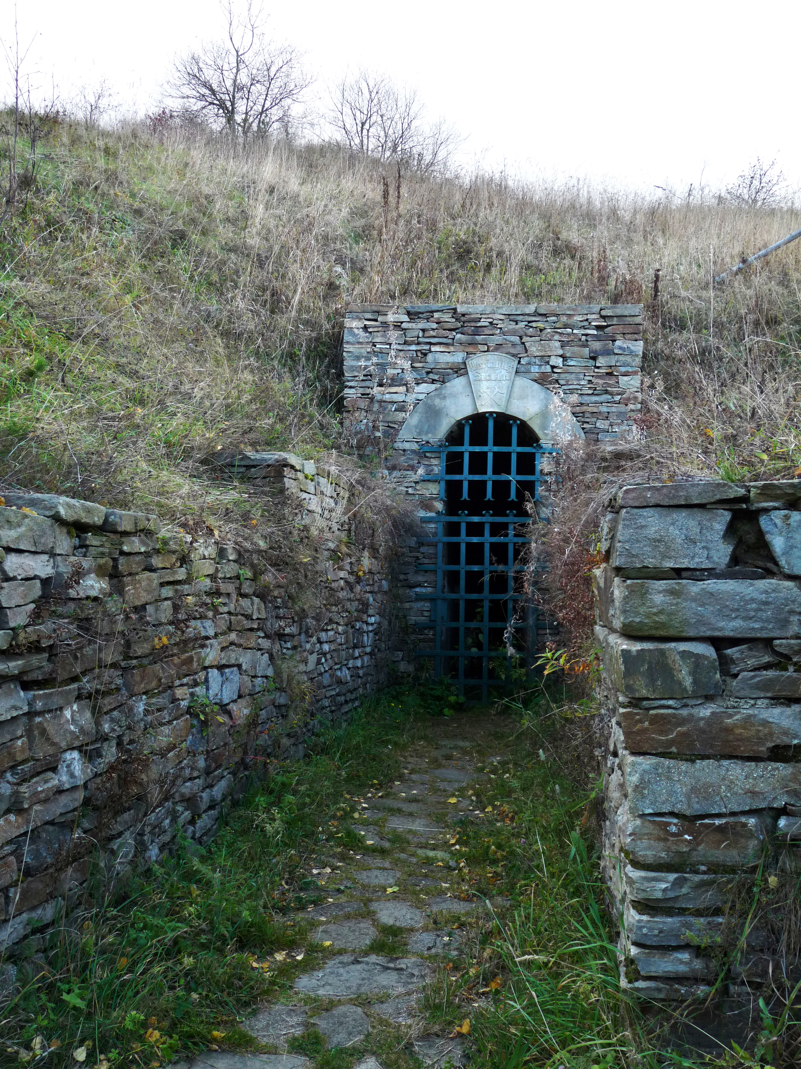 Adit of Saint Mary of Help in Mědník Hill in the Chomutov District, Ústí nad Labem Region, Czech Republic.